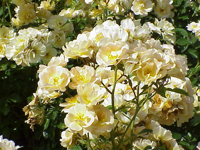 Species: Rosa sp. Family: Rosaceae Cultivar: BV Borussia Image No. 62